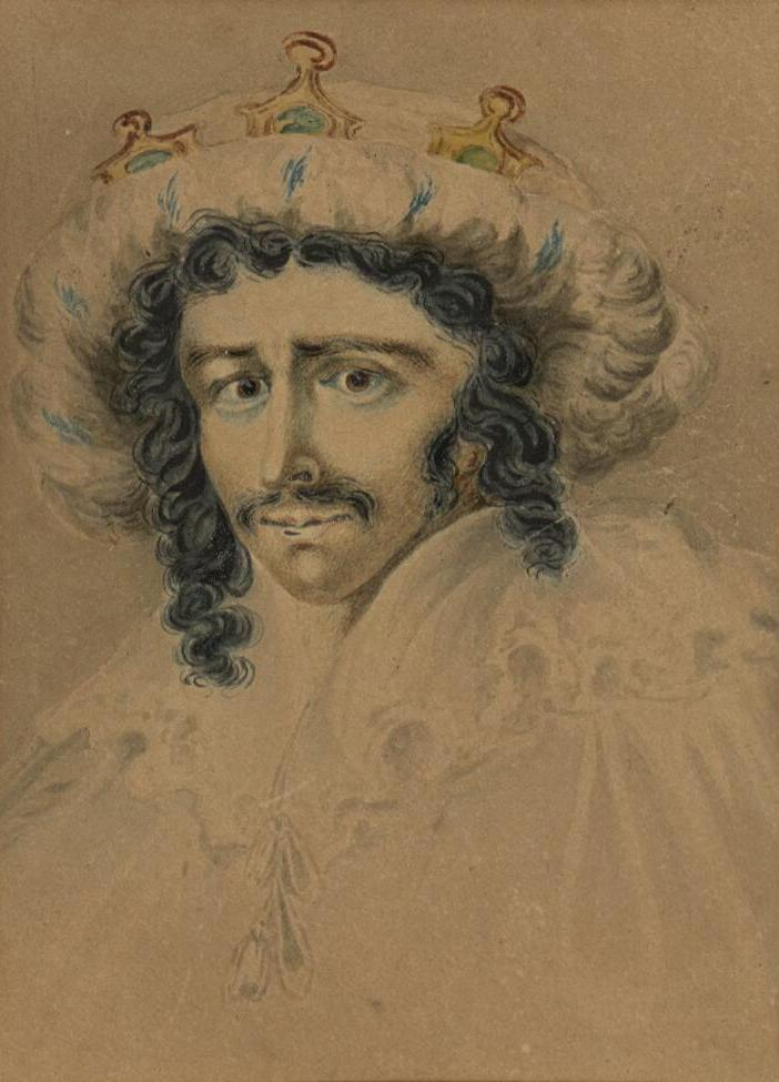 A portrait from the Welsh Portrait Collection at the National Library of Wales. Depicted person: Edmund Kean – English actor